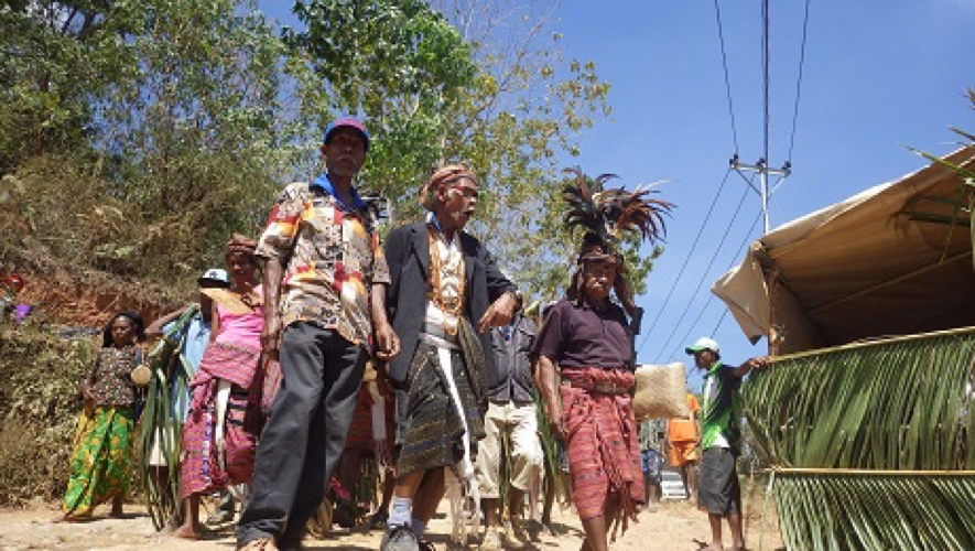 Tara Bandu ceremony for the inauguration of village regulation The community of Suco Bocolelo held Tara Bandu for inaugurating the village regulation formulated under PLUP process. (August 2017)